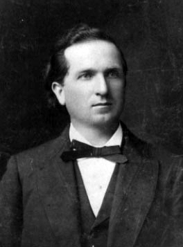 Photo of James E. Dickey as President of Emory College. As he was President from 1902 to 1915, his Presidential portrait falls into the public domain as having expired.